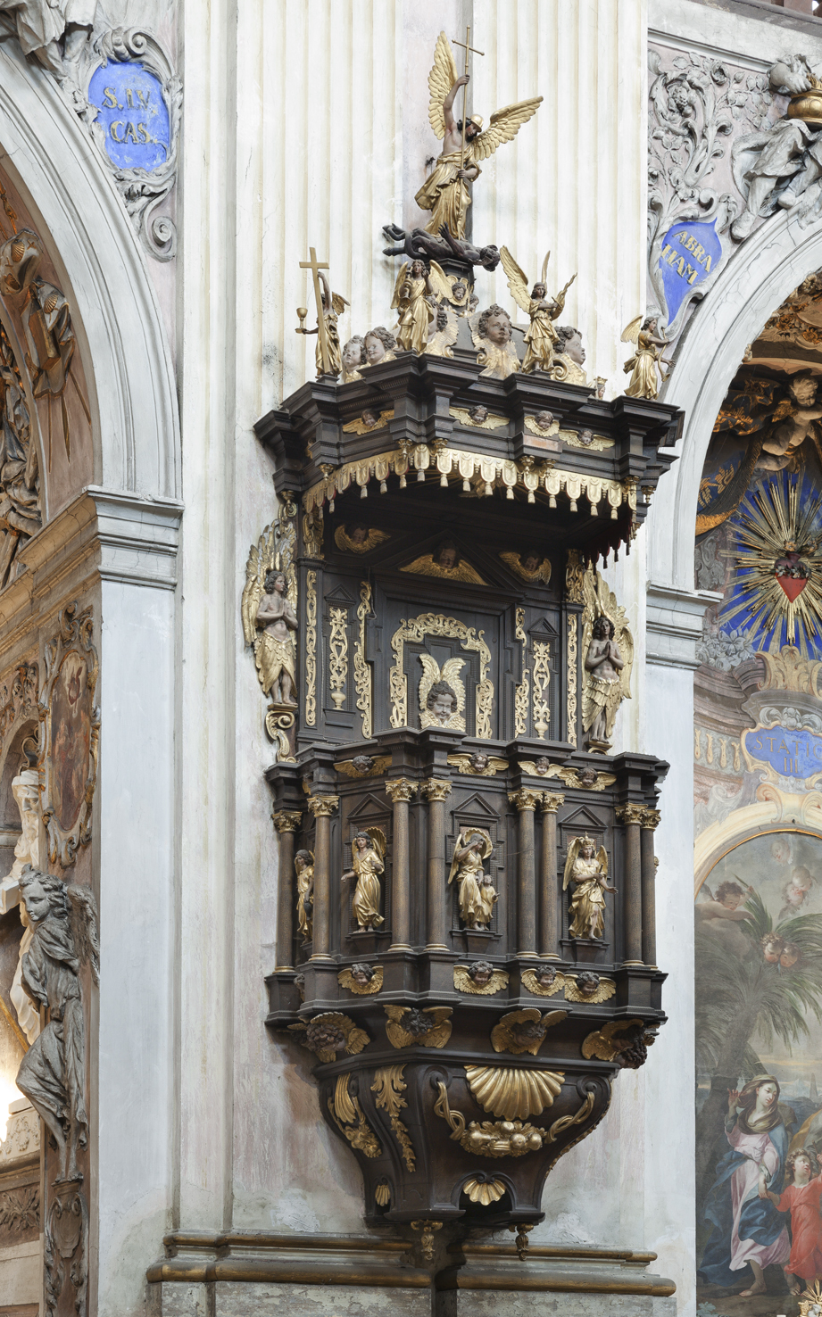 The Pulpit in the Monastery Church St. Adalbert in Broumov (Czech Rep.)